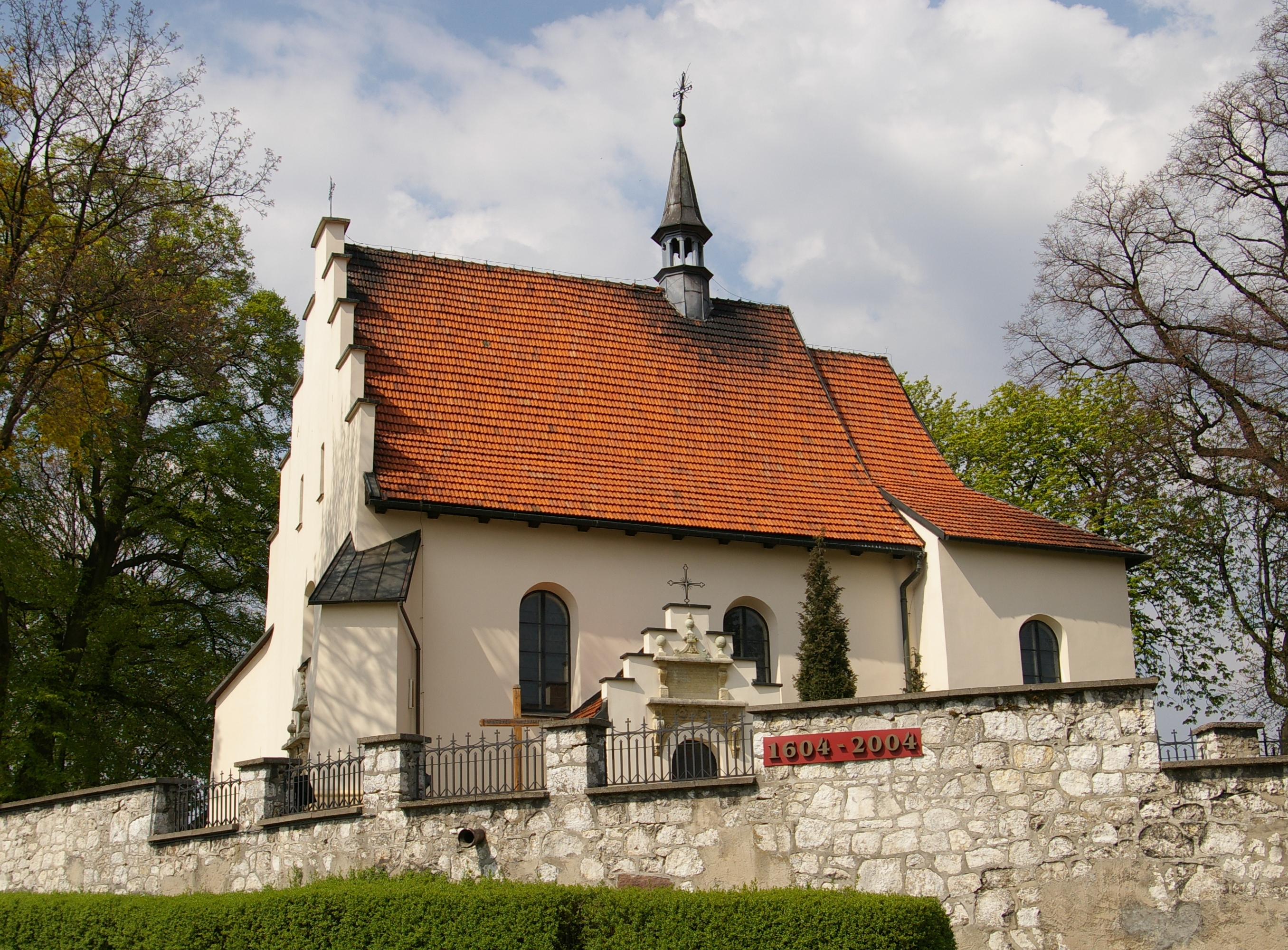 Parish church in Giebułtów, Poland